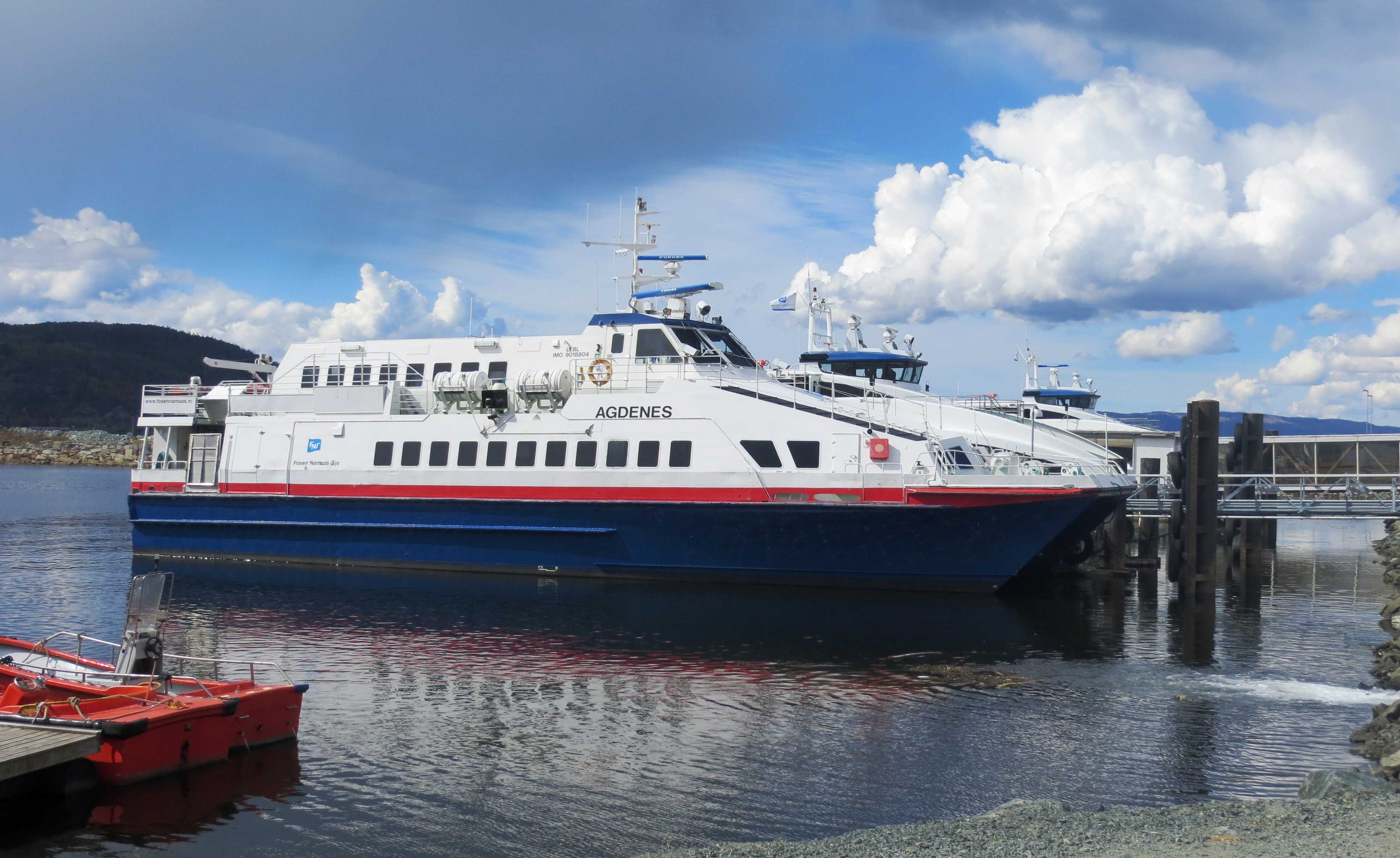 Image of a part of the Brattøra port area, Trondheim (Norway)